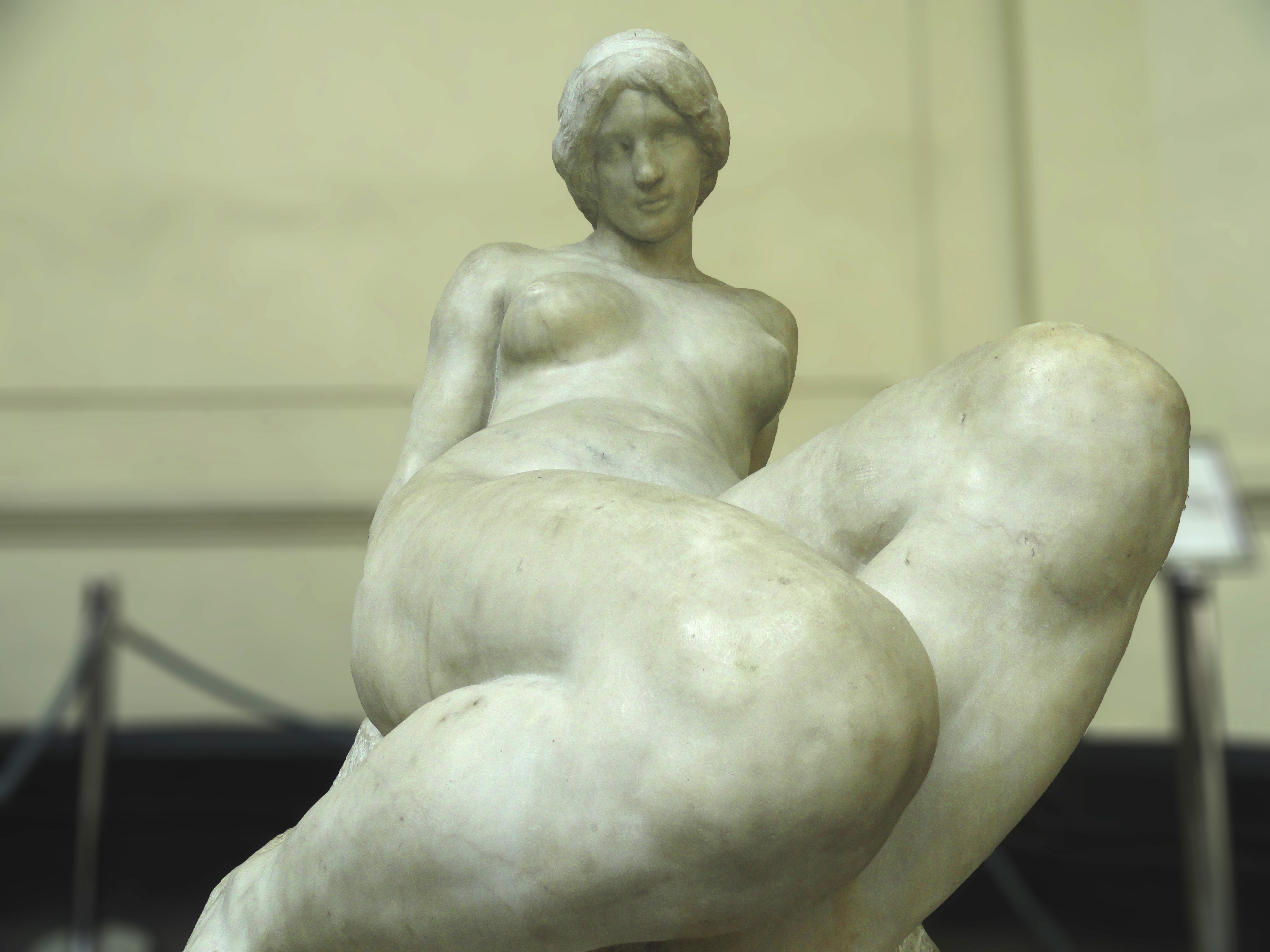 The Twilight c. 1900. Marble